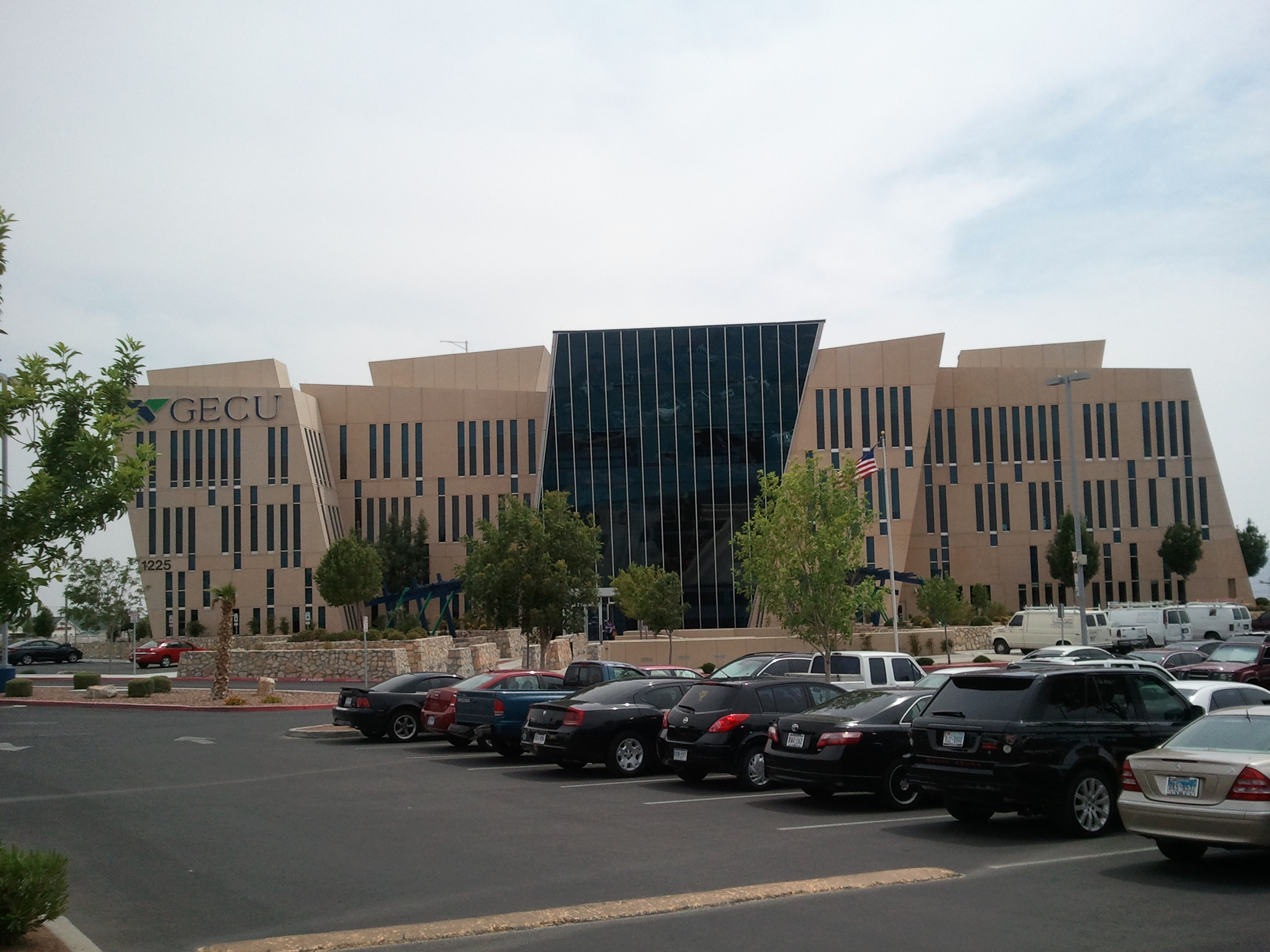 Government Employees Credit Union building headquarters